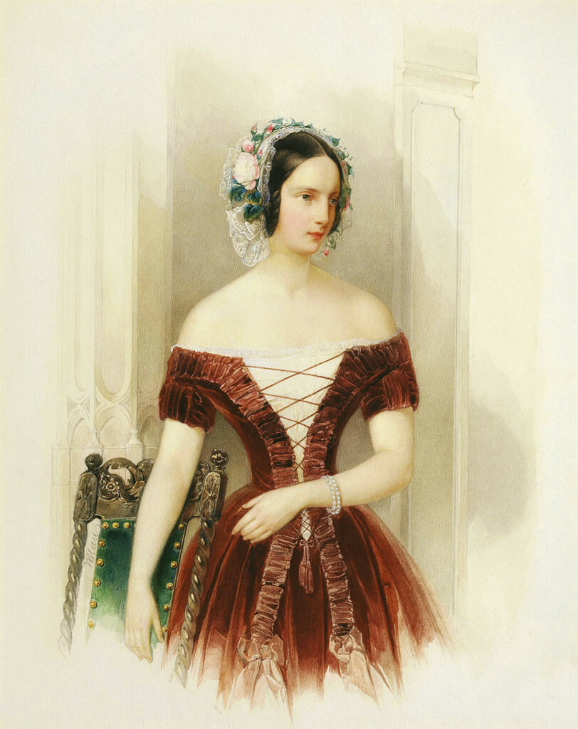 Grand Duchess Alexandra Nikolaevna of Russia, Princess of Hesse-Kassel. State Open-air Museum Peterhof, St. Petersburg